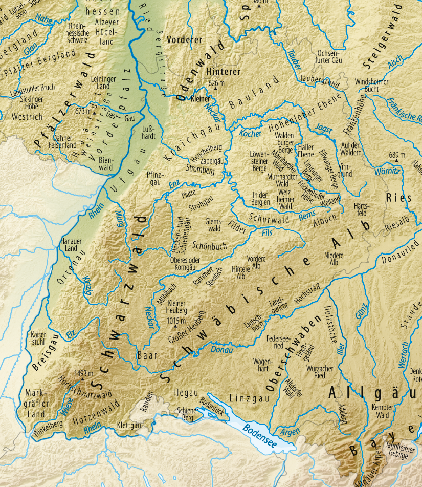 Landscape of Baden-Württemberg